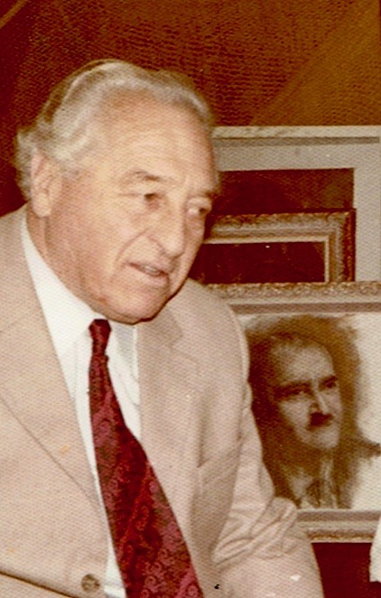 Carolus Vocke (1977)